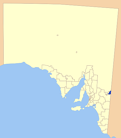 Modification of Astrokey44's original map found here: File:SA_LGA_blank.png Position of Coober pedy LGA